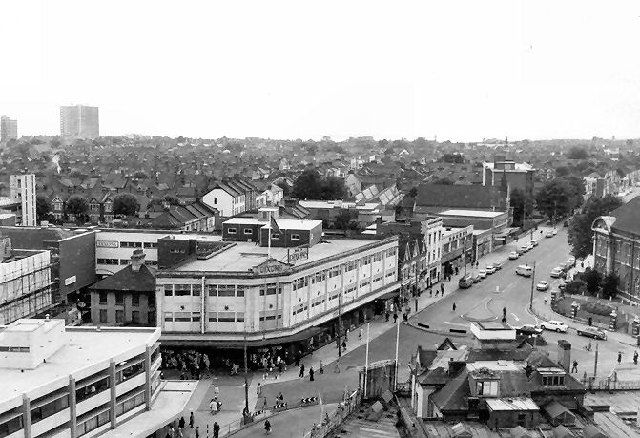 Victoria Circus 1969. Taken from high-rise behind the old shopping arcade. Pedstrianisation was already taking place of the High Street.